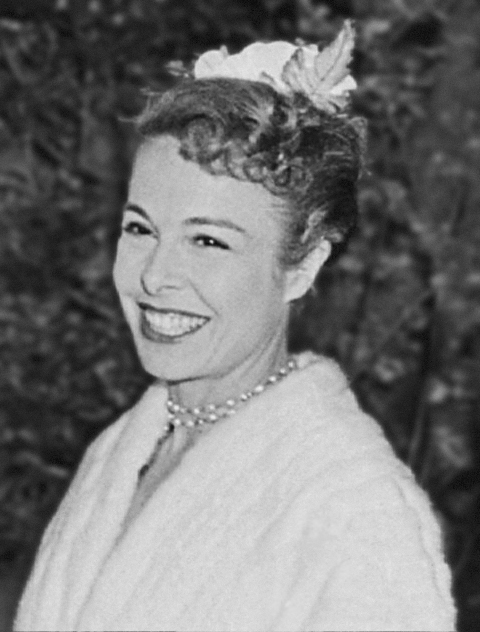 Photo of Marge Champion during a reception with President Truman at the inauguration of the Carton Barron Amphitheater at Rock Creek Park